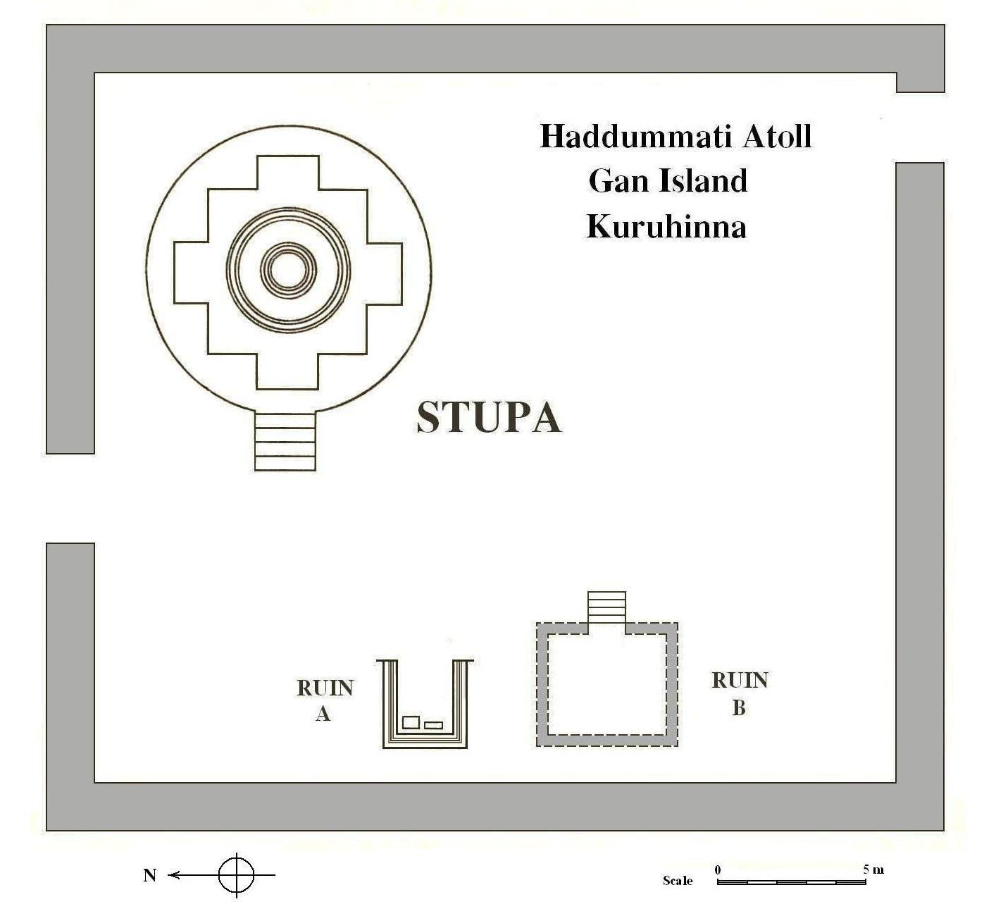 The temple compound at one of the Buddhist sites in Gan Island. Drawing of stupa in L-Gan by Xavier Romero-Frias based on HCP Bell's plan